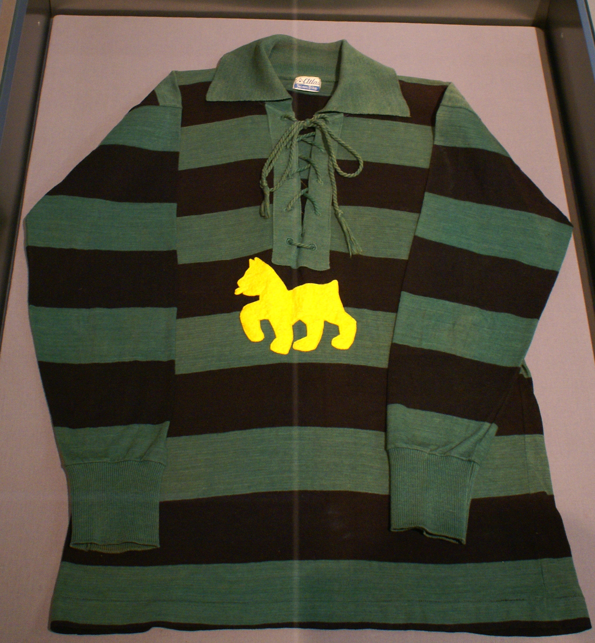 The first jersey of the Finnish ice hockey club Ilves Tampere, from 1932, on display at the Ice hockey museum of the Vapriikki museum center, in Tampere.